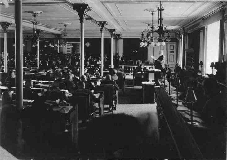 The temporary assembly hall used by Landstinget 1884-1928.